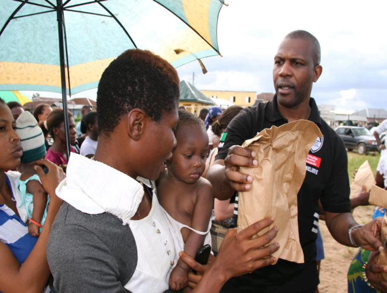 A photo of Tonye Princewill with the victims of flooding